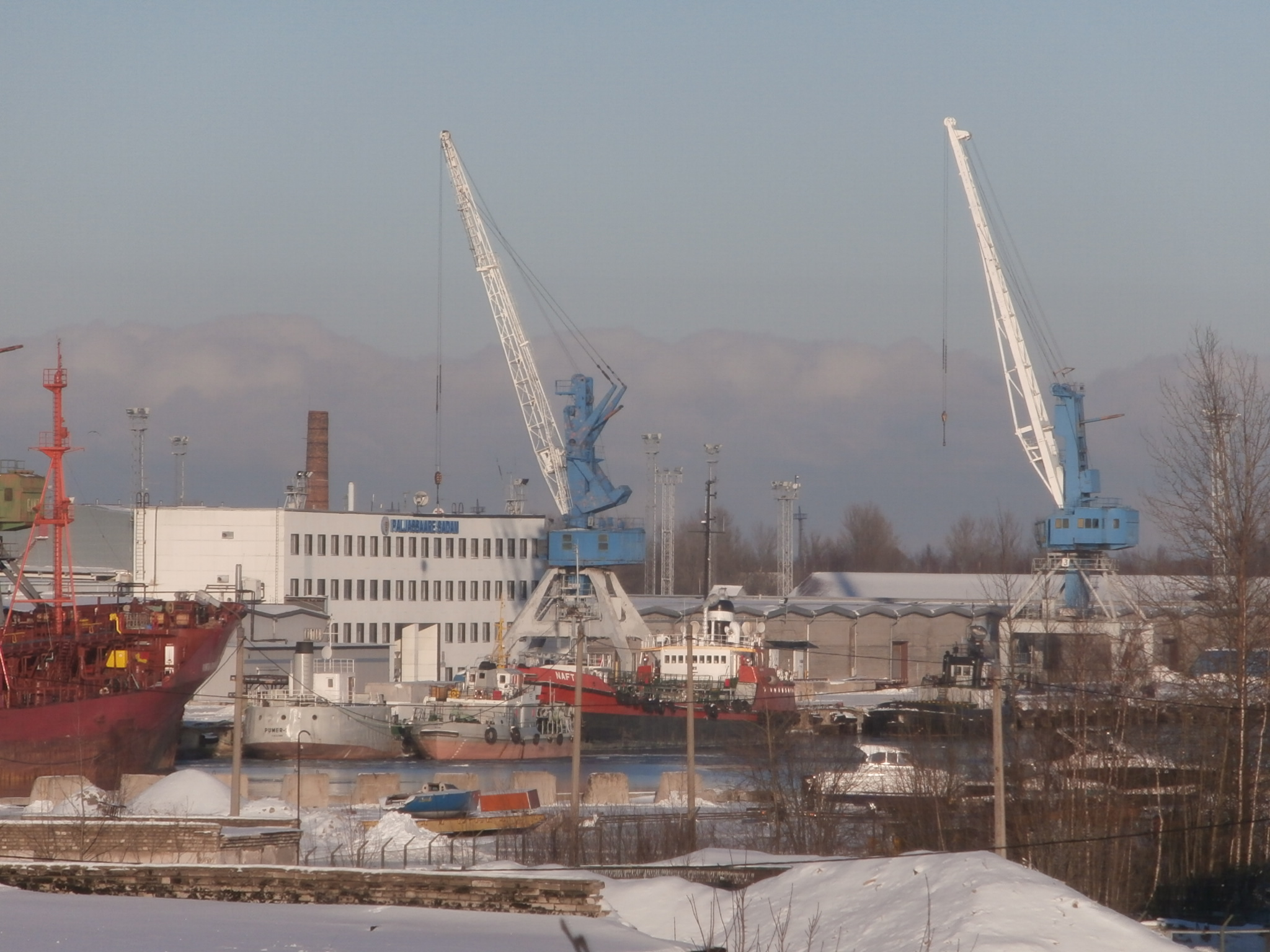 Bow mast of Kapitan Ponikarovskiy, barge Pumer-1 (ex-НБ-3), Lotos, Nafta, Mõntu in Paljassaare sadam in Tallinn 19 January 2014